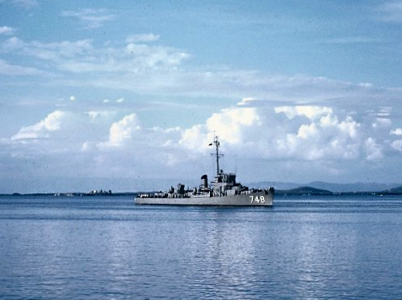 The U.S. Navy destroyer escort USS Tills (DE-748) in Guantanamo Bay, Cuba, in the early 1960s.